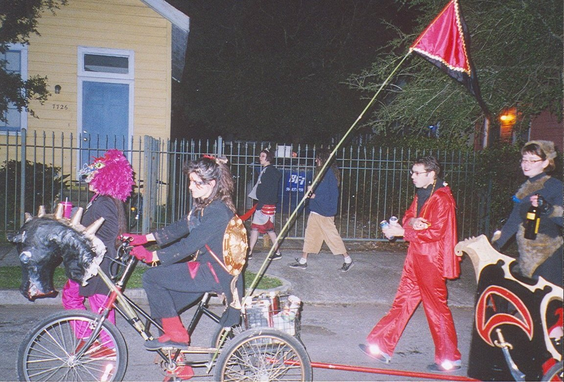 Home made float using a bicycle, neighborhood New Orleans Carnival parade. Krewe of OAK. Photo by Infrogmation of New Orleans, 4 February, 2005.